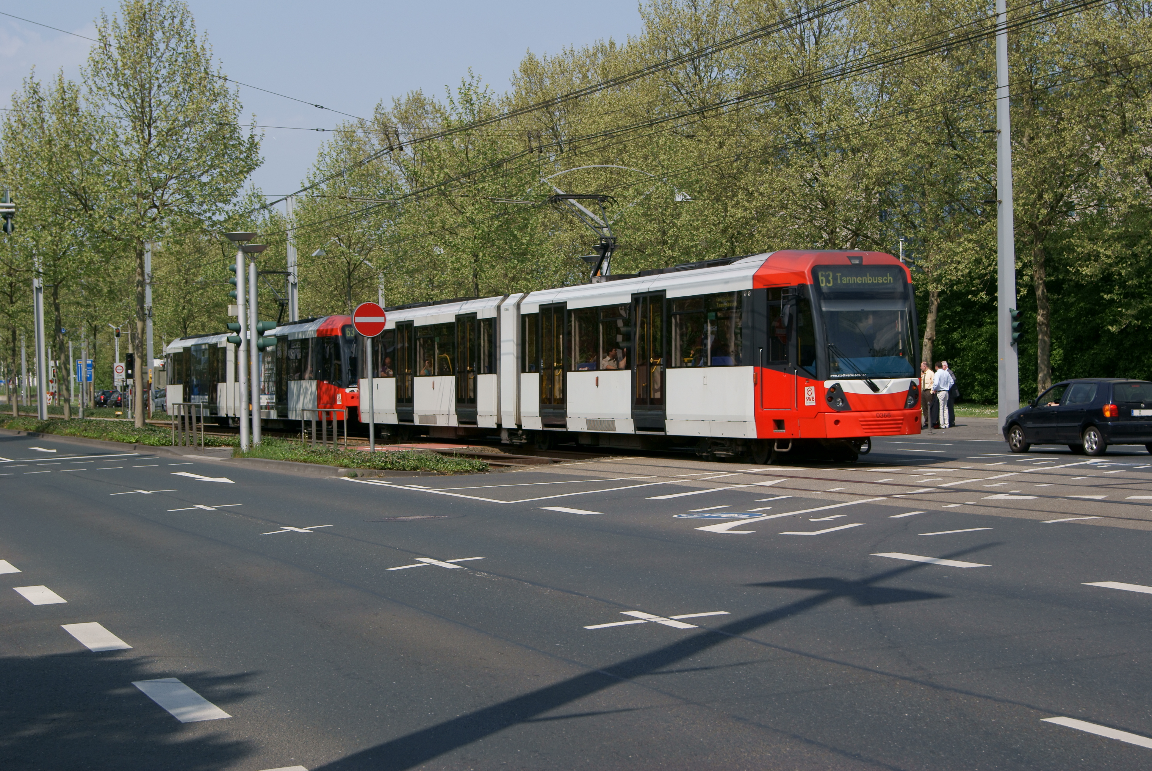 Flattr dieses Foto! Flattr this!